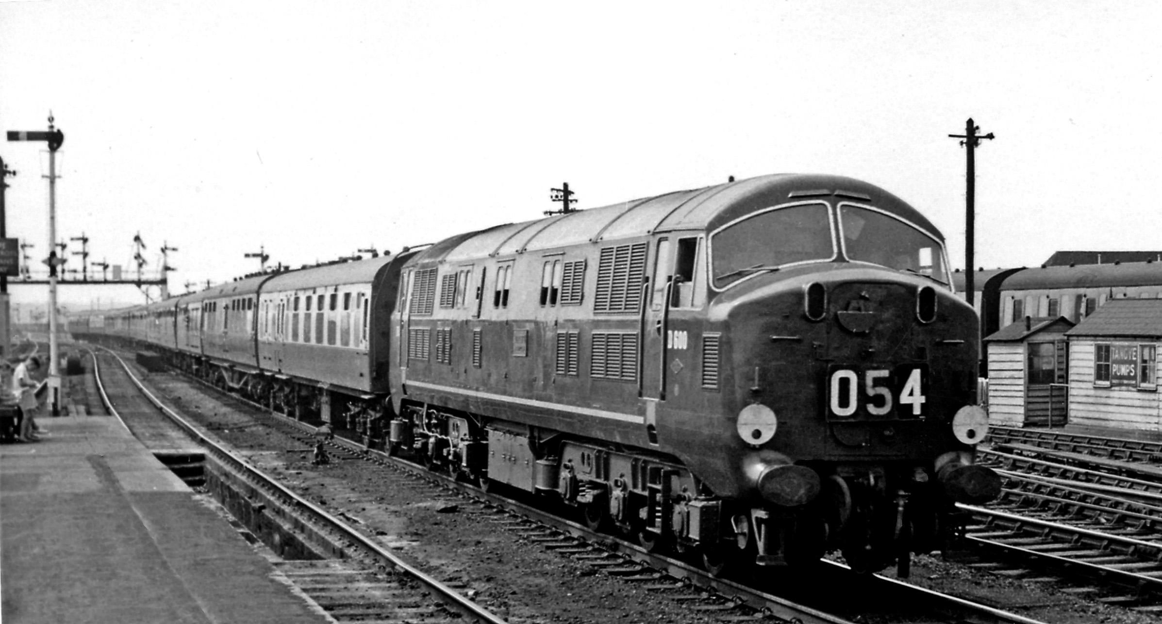 'Warship' Diesel-hydraulic at Reading (General) on an Up express. View westward, towards Reading West Junction, Swindon, Bristol, Taunton and the West; ex-Great Western main lines from Paddington. The train, running through on the Up Slow line, is the Summer 08.15 Perranporth - Paddington, headed by 2,000 hp Type 4 A1A-A1A 'Warship' No. D600 'Active', which was built in 1/58 and pioneered the conversion of the WR West of England services to Diesel from 1958.